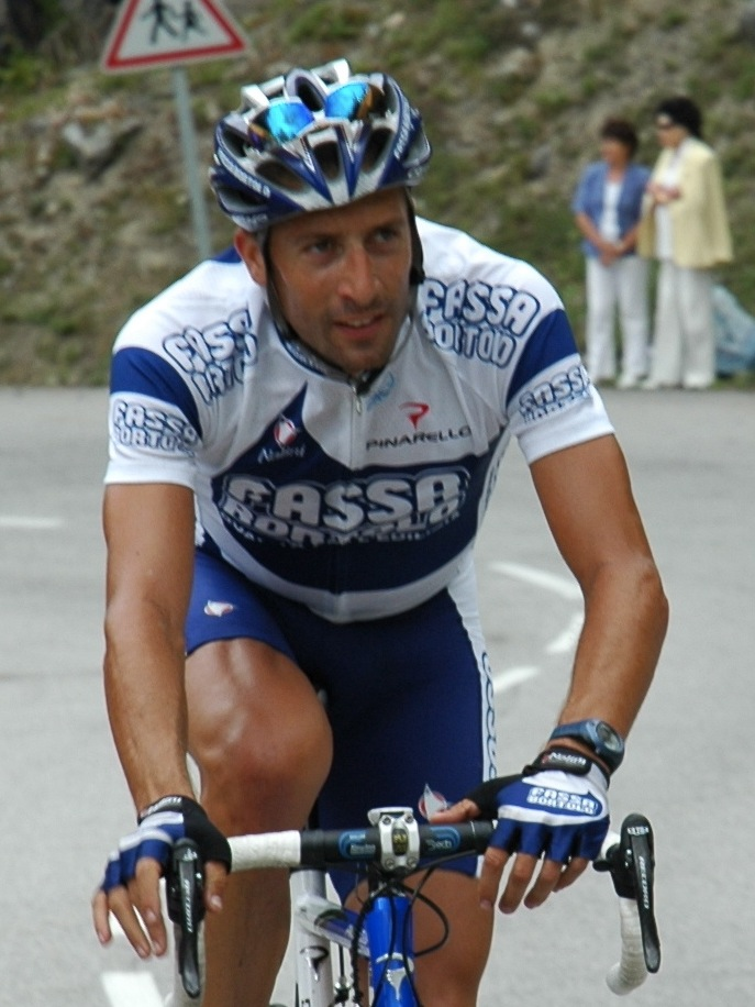 Juan Antonio Flecha riding uphill